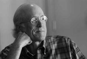 Don Rosa at Raptus 2010 in Bergen, Norway. Photo by Håvard Ferstad